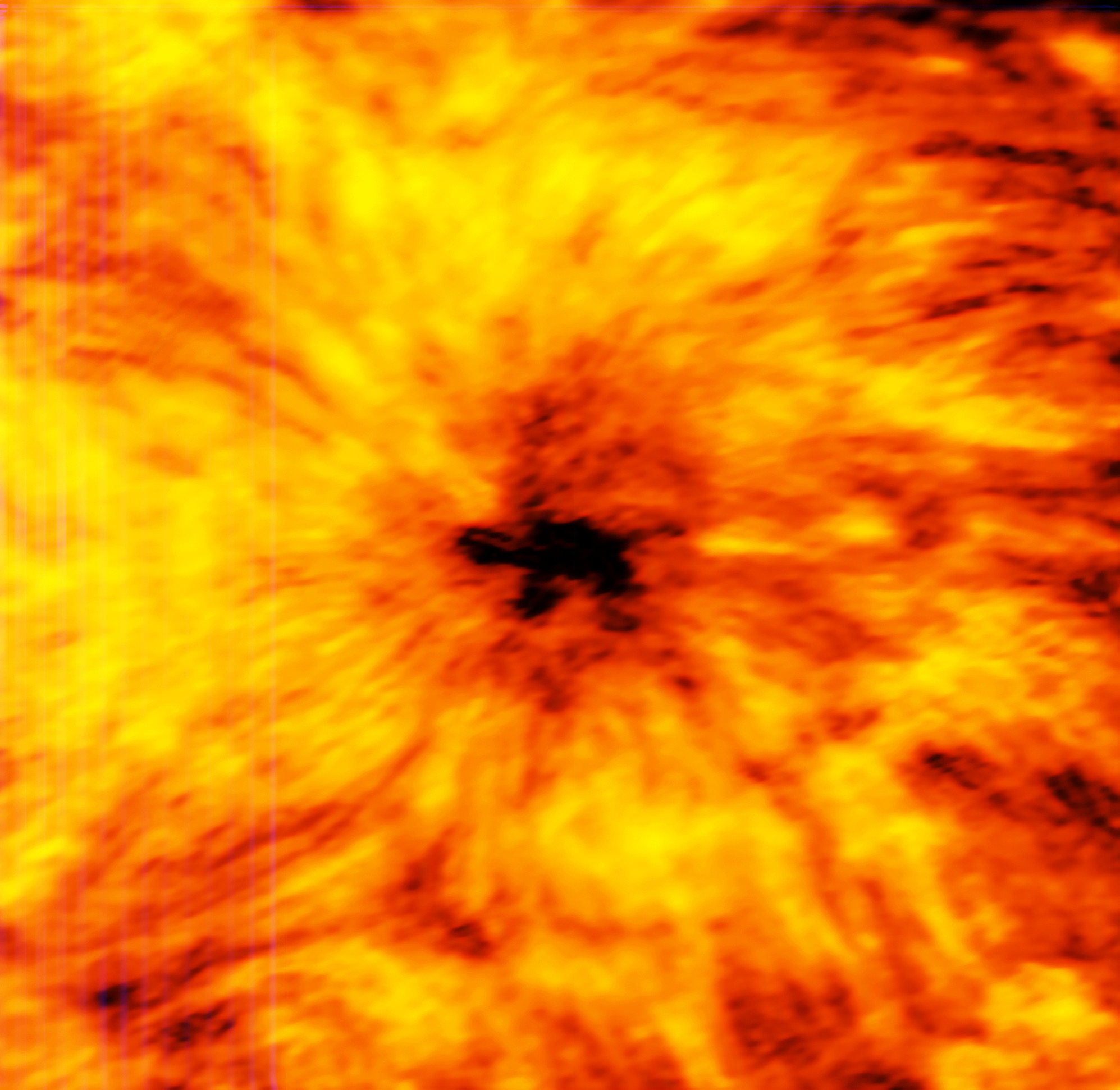 This ALMA image of an enormous sunspot was taken at a wavelength of 1.25 millimetres. Sunspots are transient features that occur in regions where the Sun’s magnetic field is extremely concentrated and powerful. They have lower temperatures than their surrounding regions, which is why they appear relatively dark. These observations are the first ever made of the Sun with a facility where ESO is a partner. They are an important expansion of the range of observations that can be used to probe the mysterious physics of our nearest star.